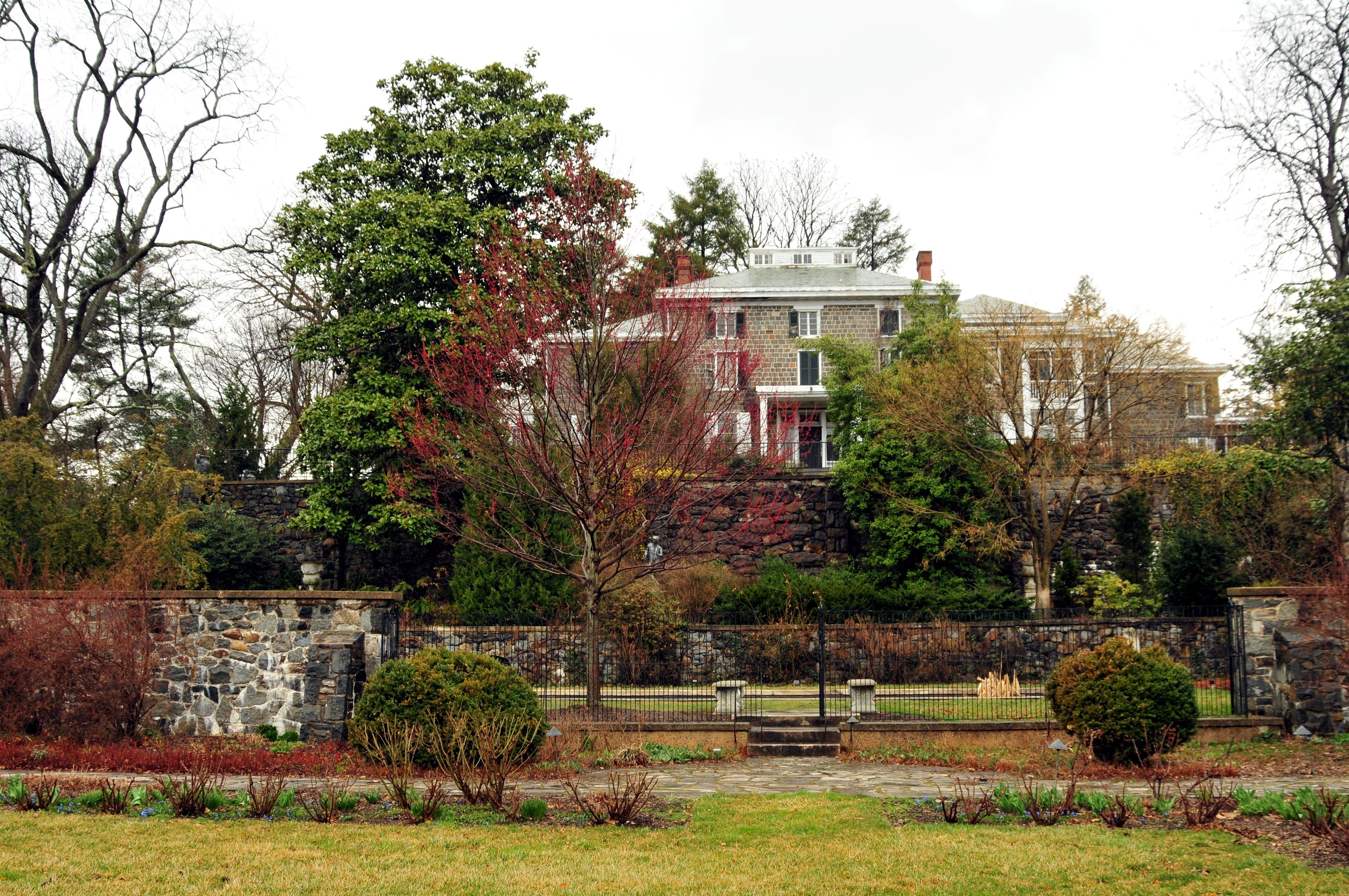 View of the Gibraltar gardens and mansion in Wilmington, Delaware